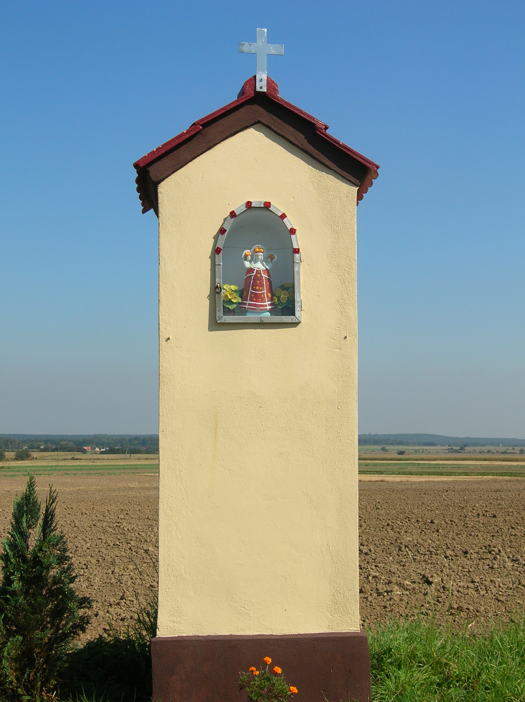 Ligota Górna